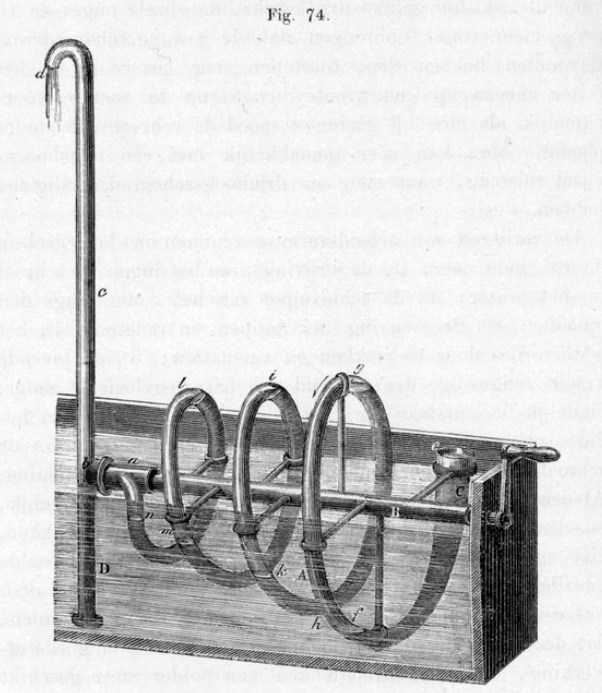 Spiral pump - from the book "Kennis van Werktuigen" (publ. 1875) by D. Grothe